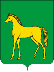 Bronnitsy (Moscow oblast), coat of arms (2005)